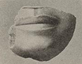 Fragment of a statue of King Userkaf from his Sun Temple at Abu Gurob, now at the Ägyptisches Museum Berlin (ÄM 19774); Alabaster